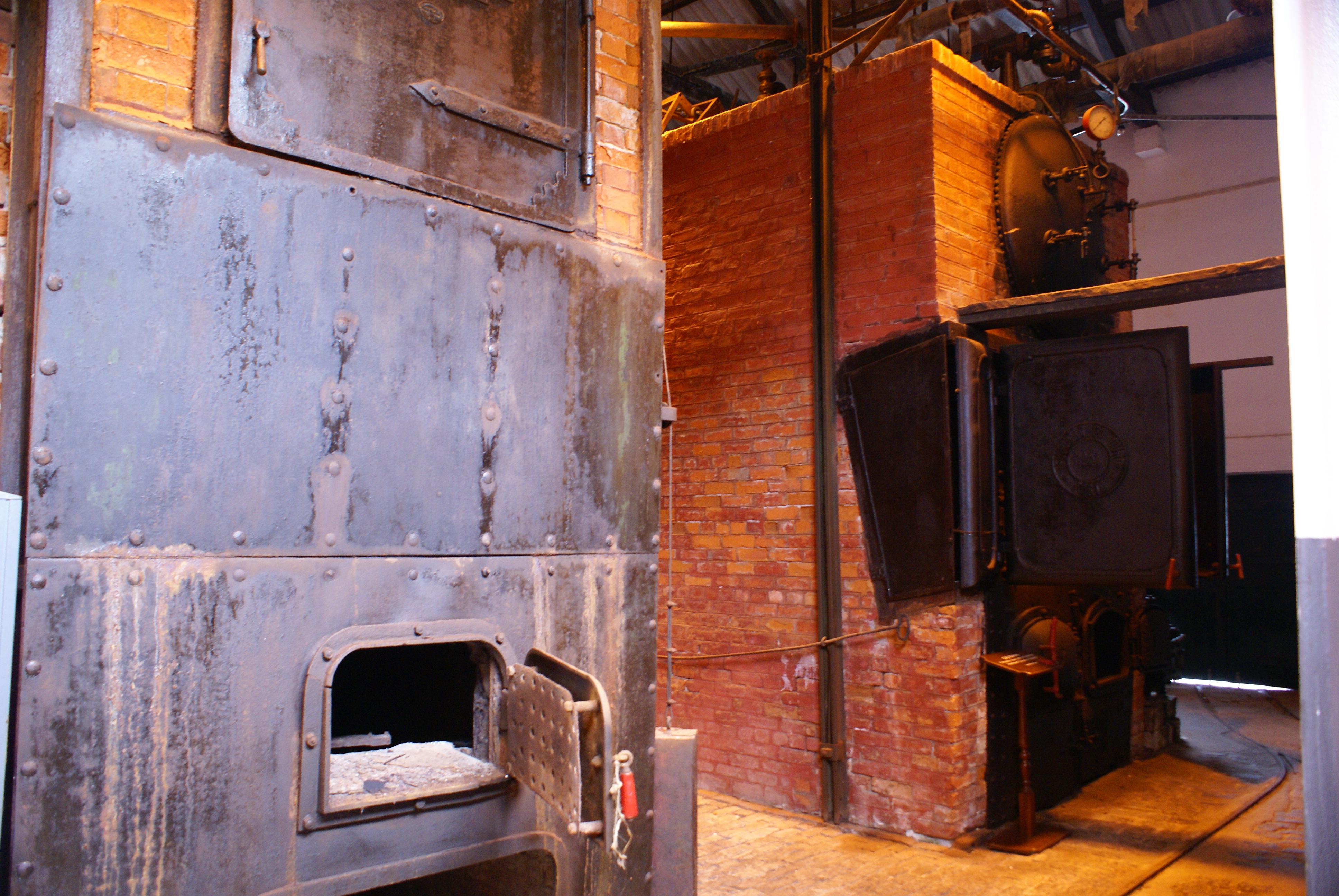 Fábrica da Baleia, actual Museu da Baleia, aspectos 2, cidade da Horta, ilha do Faial, Açores, Portugal